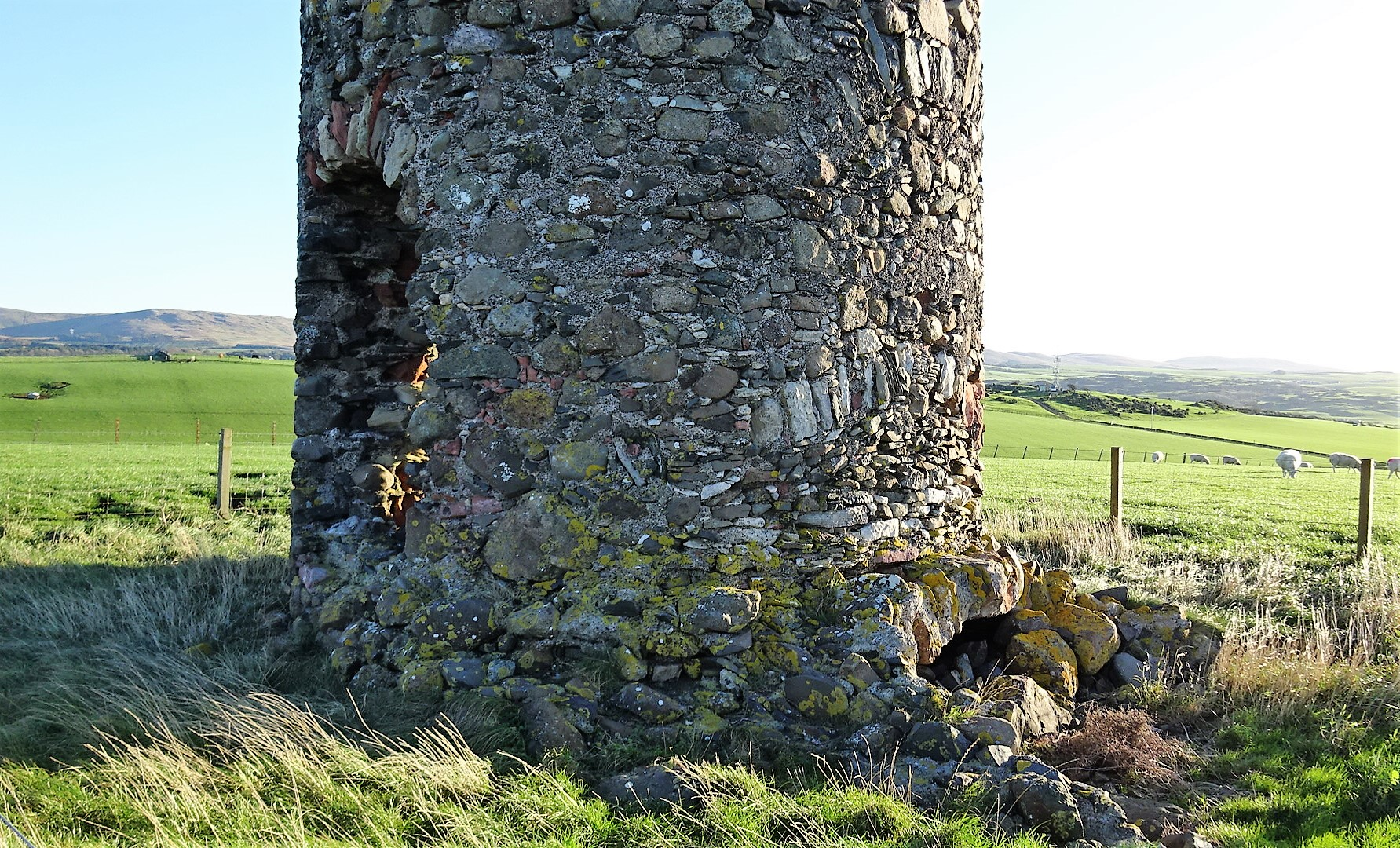 Ballantrae's Vaulted Tower Windmill, Mill Hill, South Ayrshire - view of buried vault and north door.